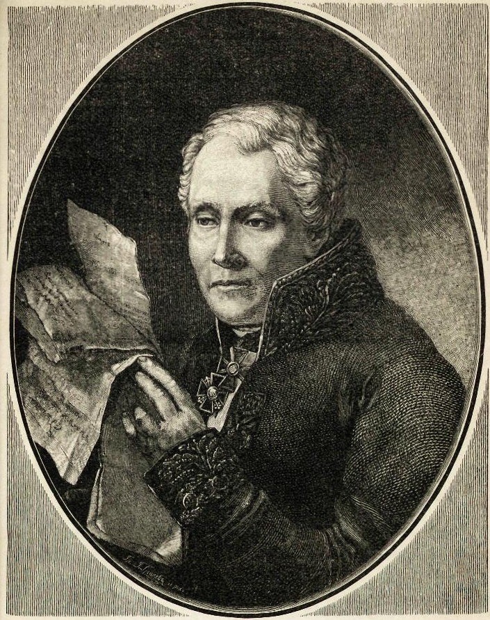 Kachenovskiy Mikhail Trofimovich